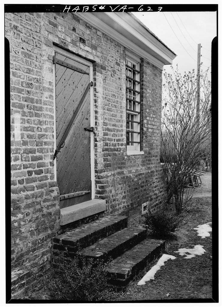 A closeup view of the Debtors' Prison in Accomac, Virginia, USA.